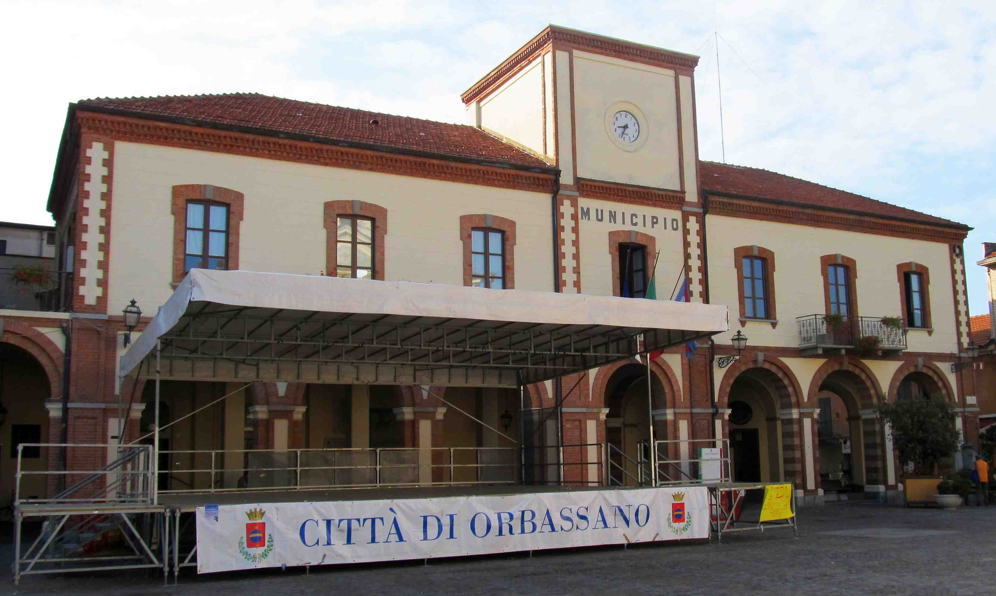 Orbassano (TO, Italy): town hall